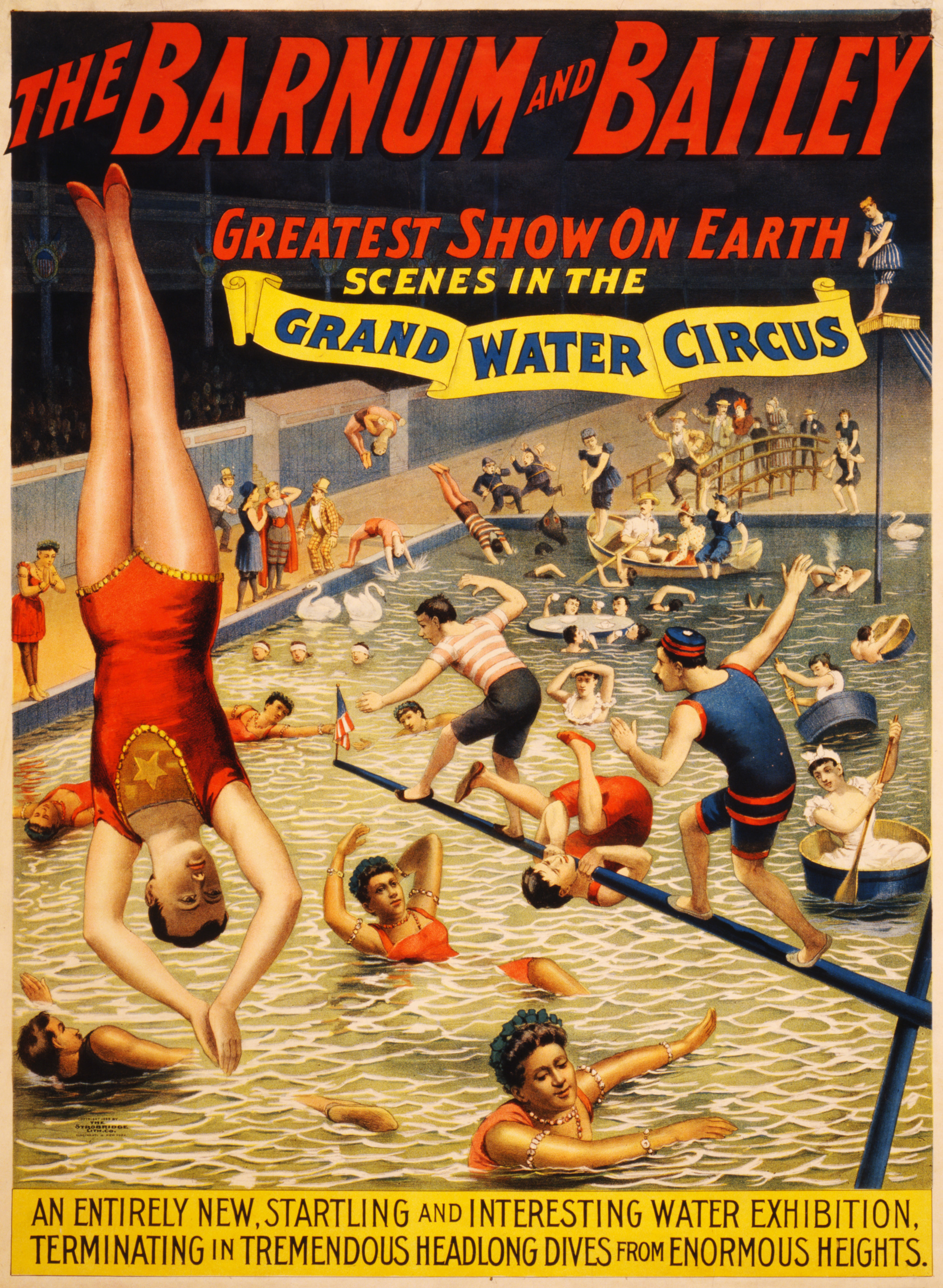 The Barnum & Bailey greatest show on earth Scenes in the grand water circus